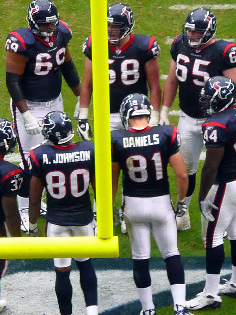 Houston Texans players huddle during the Dec. 9, 2007 game.